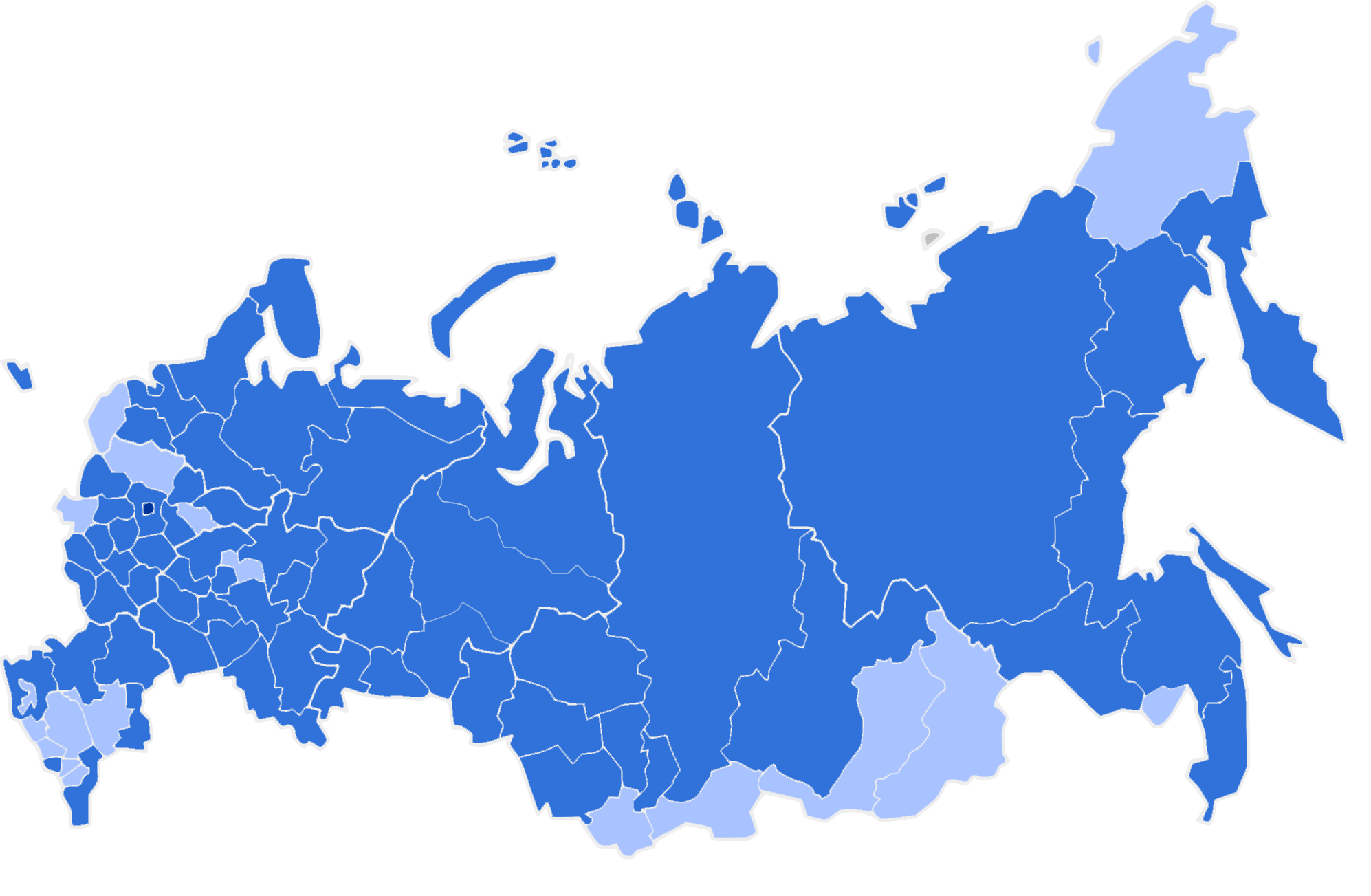 Russian regions by HDI 2010